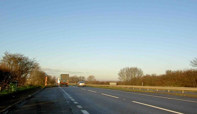 The Foston by pass on the A1 North